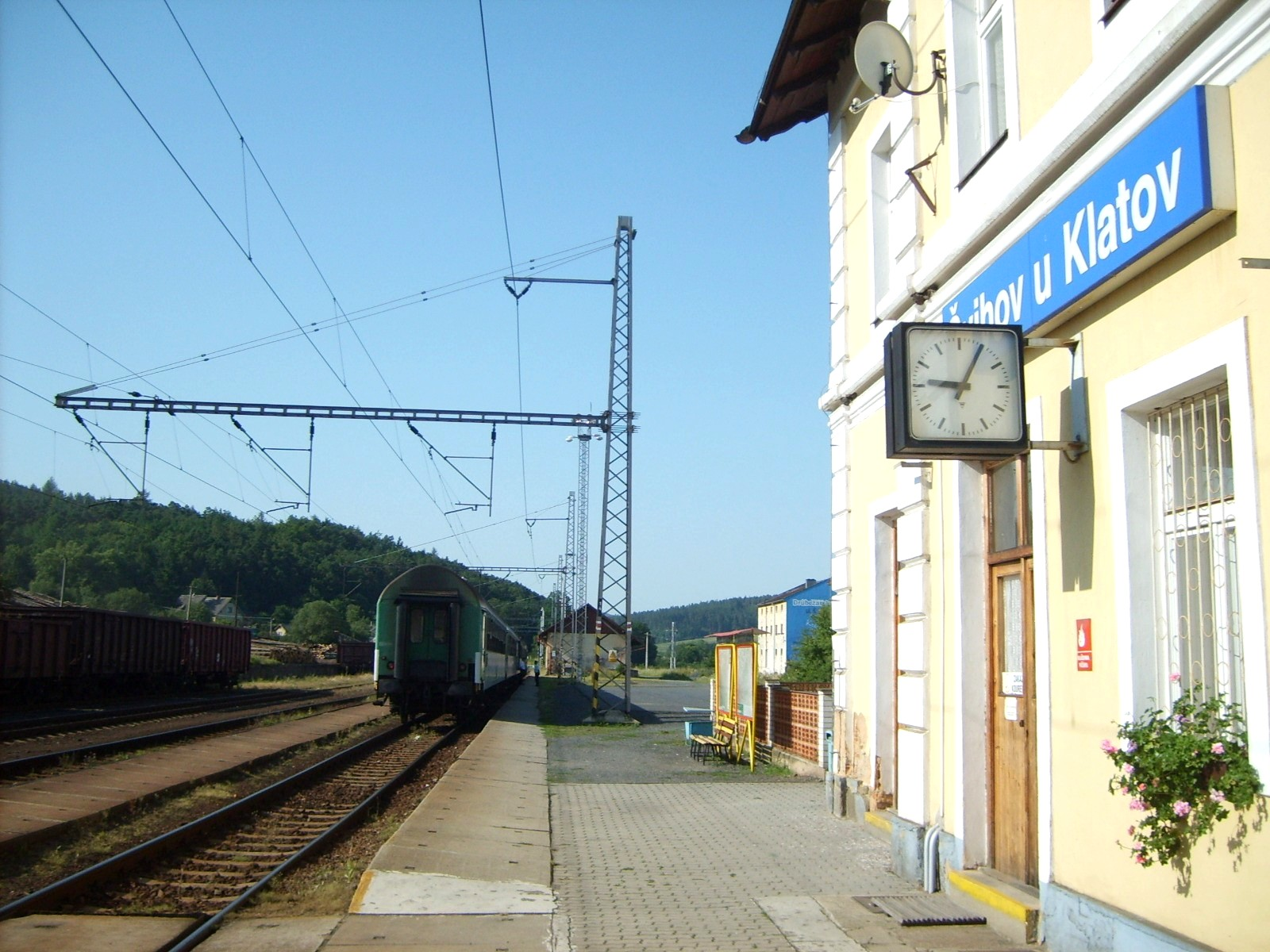 Railway station Švihov u Klatov